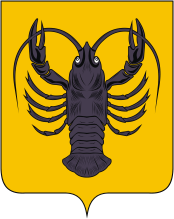 Veszegonsk (Tver oblast), coat of arms